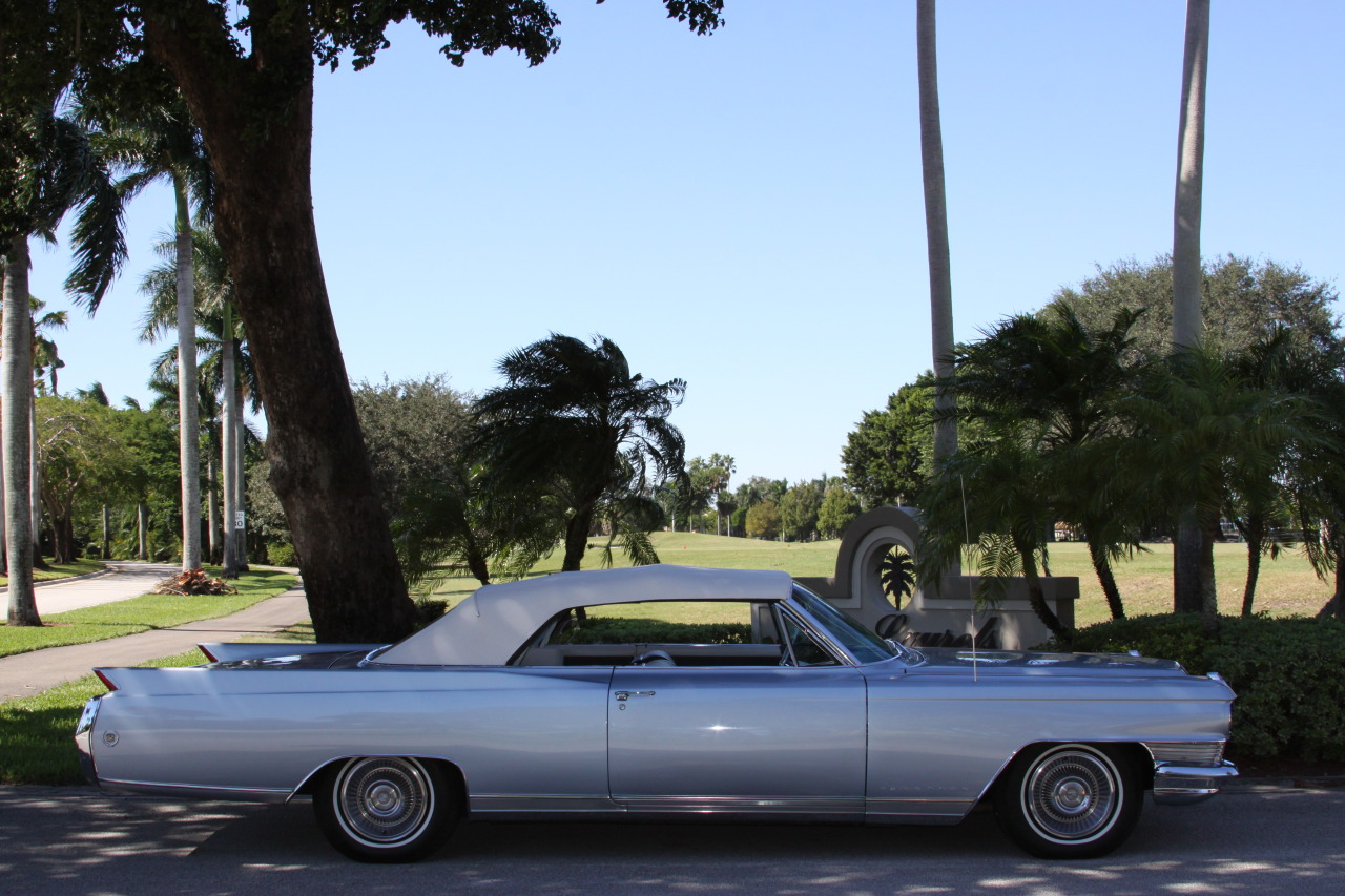 1964 Cadillac Eldorado convertible